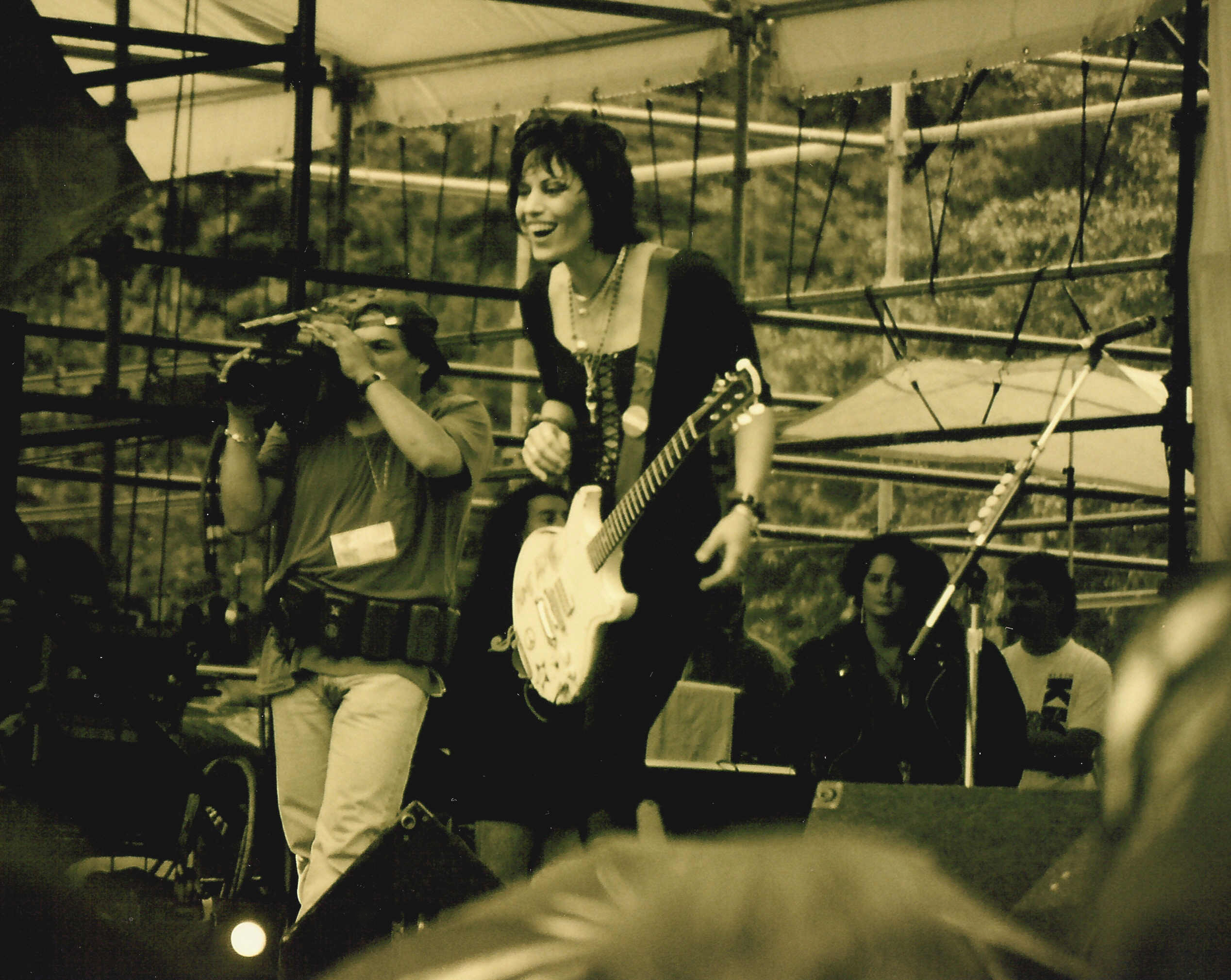 Joan Jett, Bumbershoot festival, Seattle, Washington, 1994.